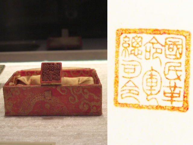 國民革命軍總司令印(The Commander-in-Chief's Seal, National Revolutionary Army)